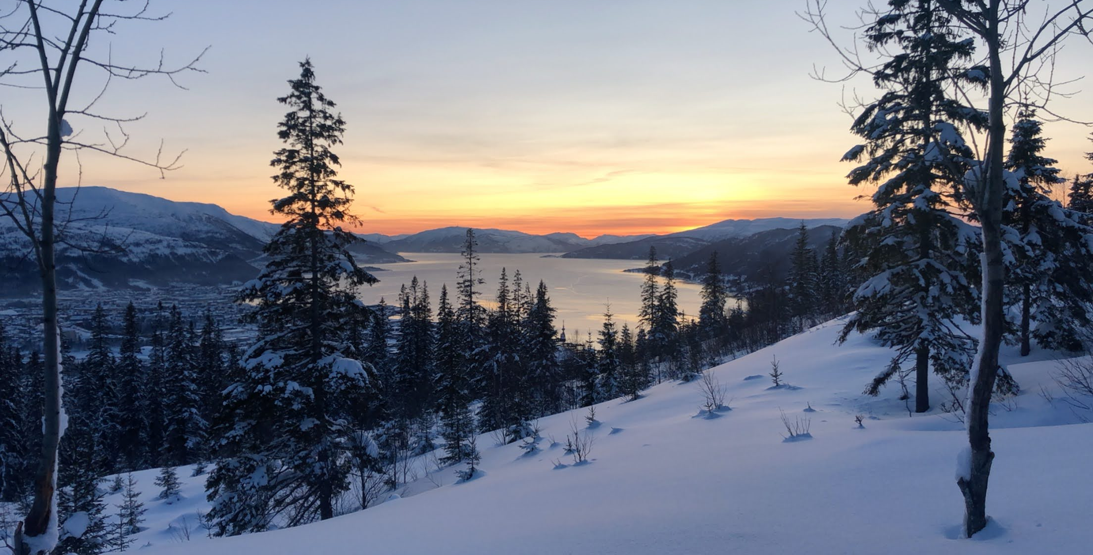 View of the Ranafjorden from Selforslia, taken winter 2020.